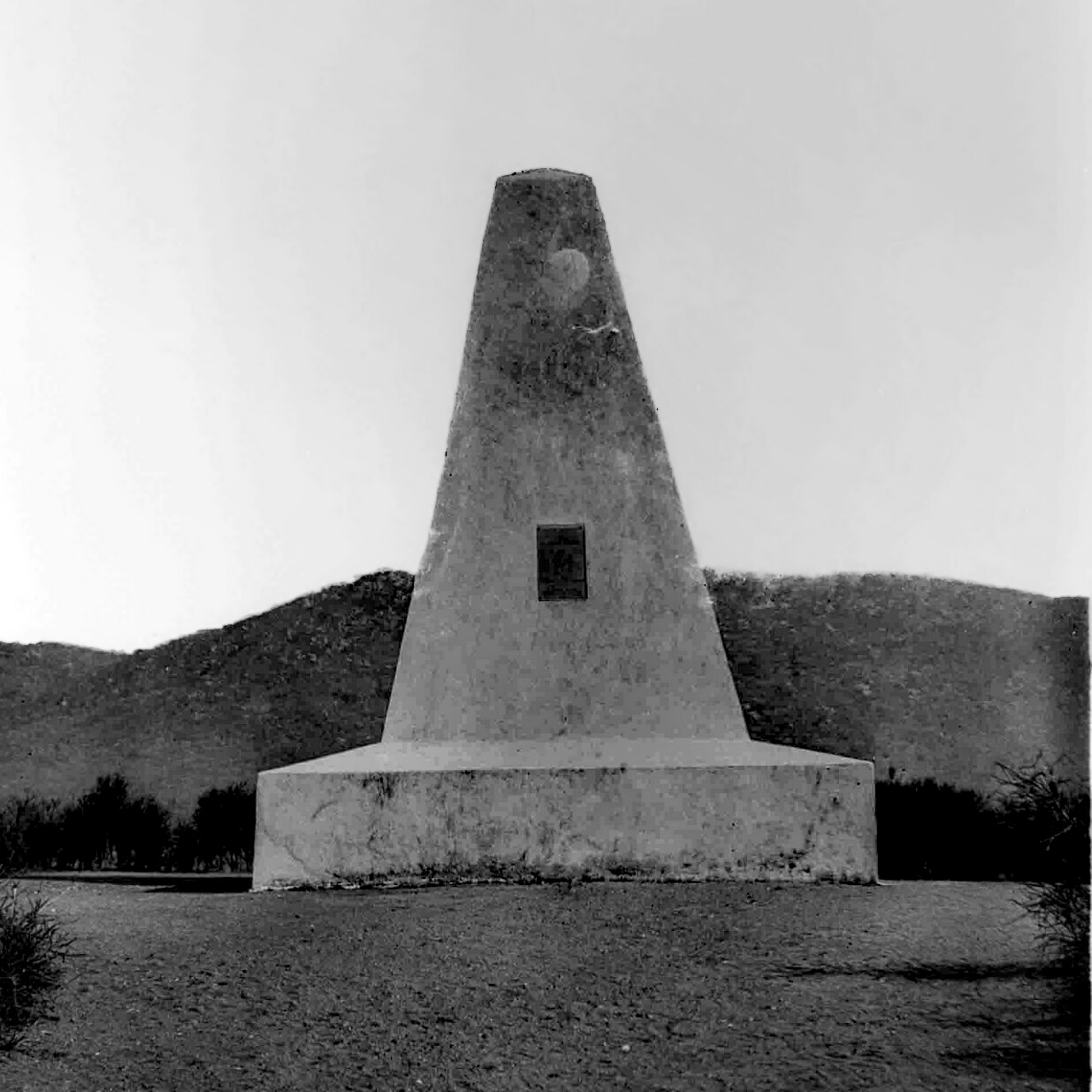 Memorial at Rugora in German East Africa (today Lugalo in Tanzania).